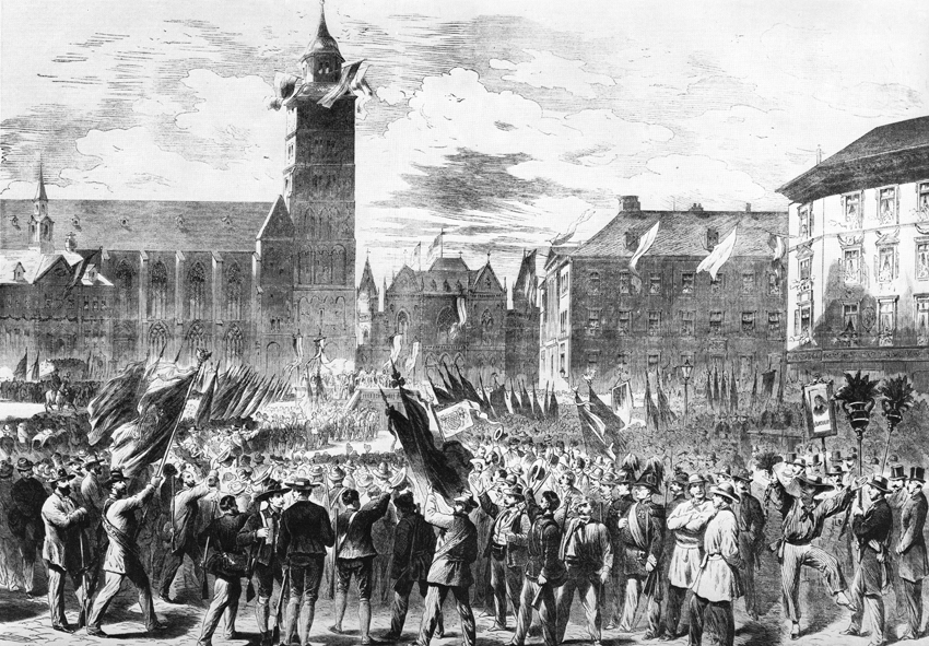 Handing over of the union flag at the Domshof square. Lithography by C. E. Doepler for the Zweite Deutsche Bundesschießen (“Second german marksmen’s festival”) in Bremen, Germany, in the year 1865.